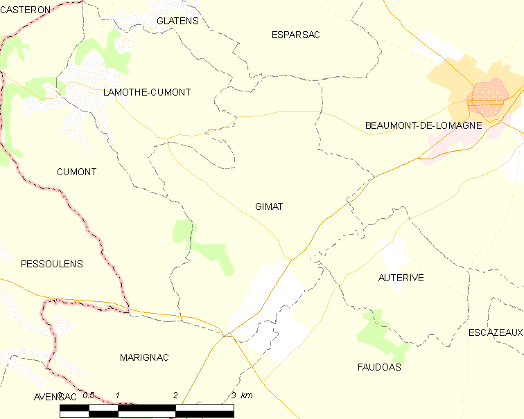 Map of French municipality Gimat